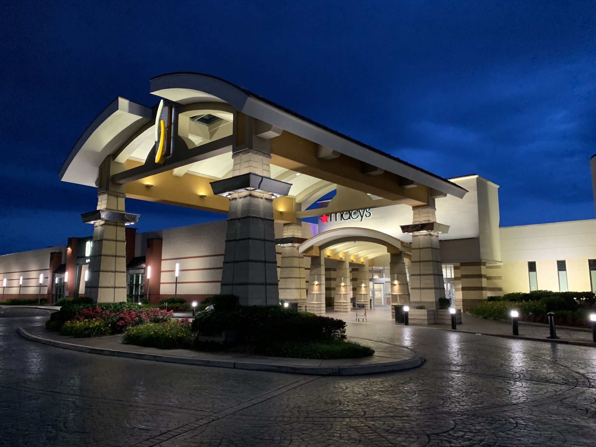 This is the main entrance and motor lobby for the Spotsylvania Towne Centre in Fredericksburg, Virginia.